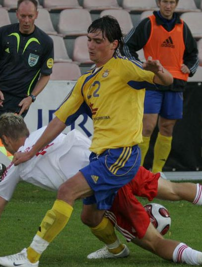 Igor Tigirlas